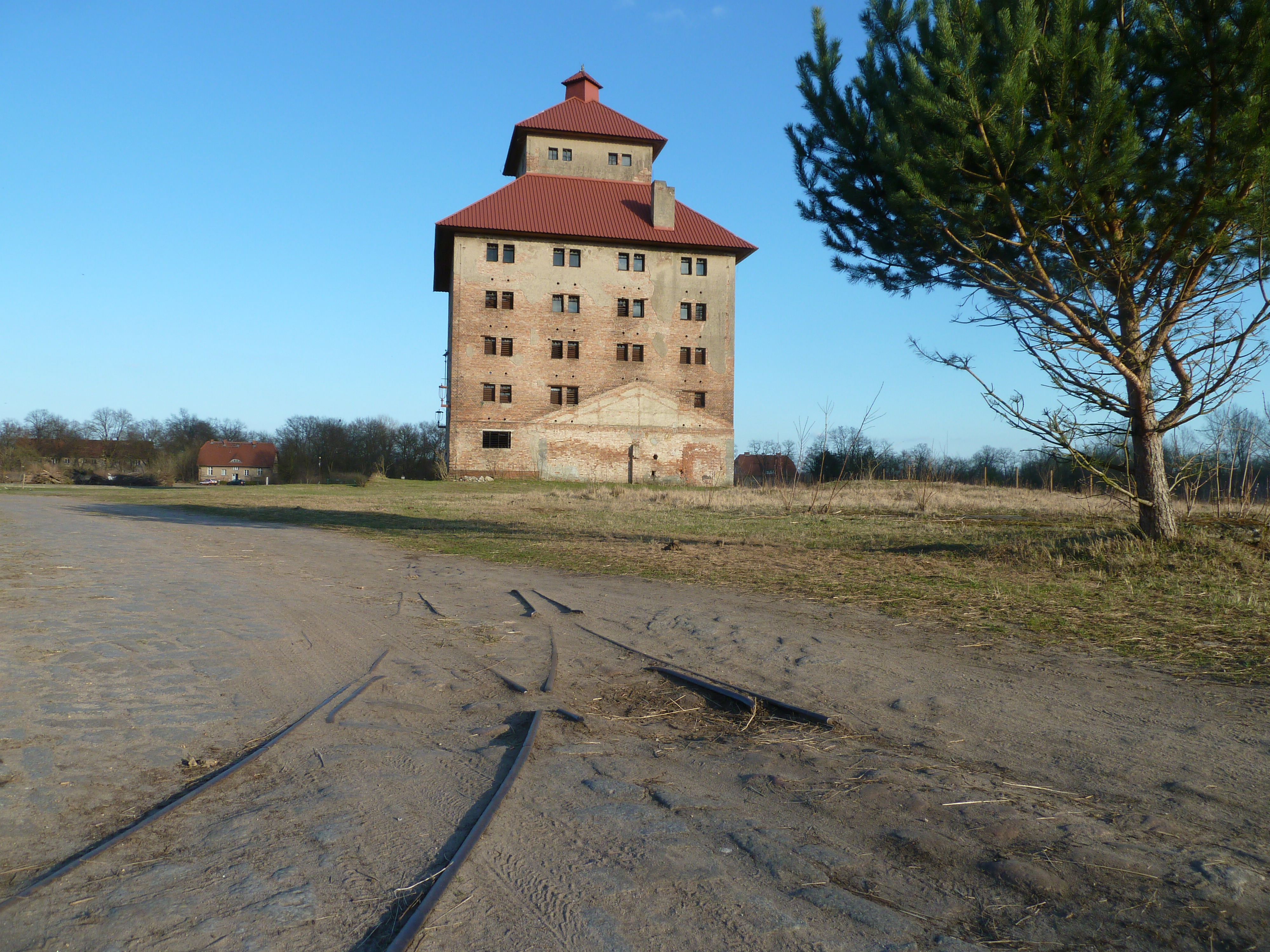 Hobrechtsfelde, the remains of Hobrechtsfelder Wirtschaftsbahn as well as the granary are on the Cultural heritage list.